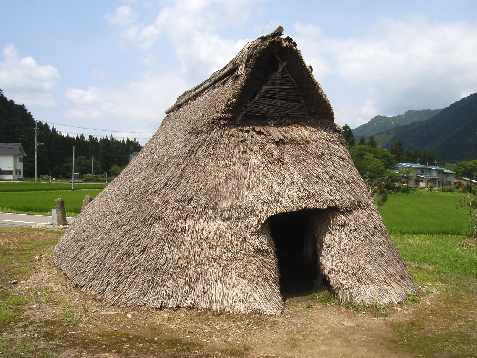 Pit dwelling of Kubota Ruins near Aizu Tadami Old Material Museum in Tadami Town, Fukushima Prefecture, this photo taken in August 2, 2006